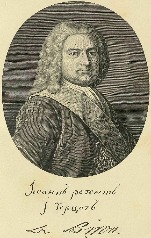 Ernst Johann von Biron